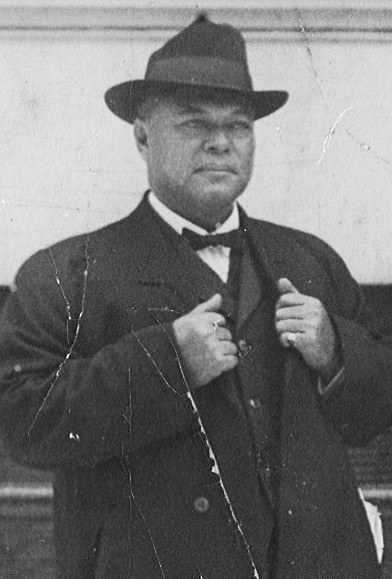 Hawaiian Legislative Commission, 1920. At Shoreham Hotel, Washington, D. C. January 1920. Crop of Senator John H. Wise.